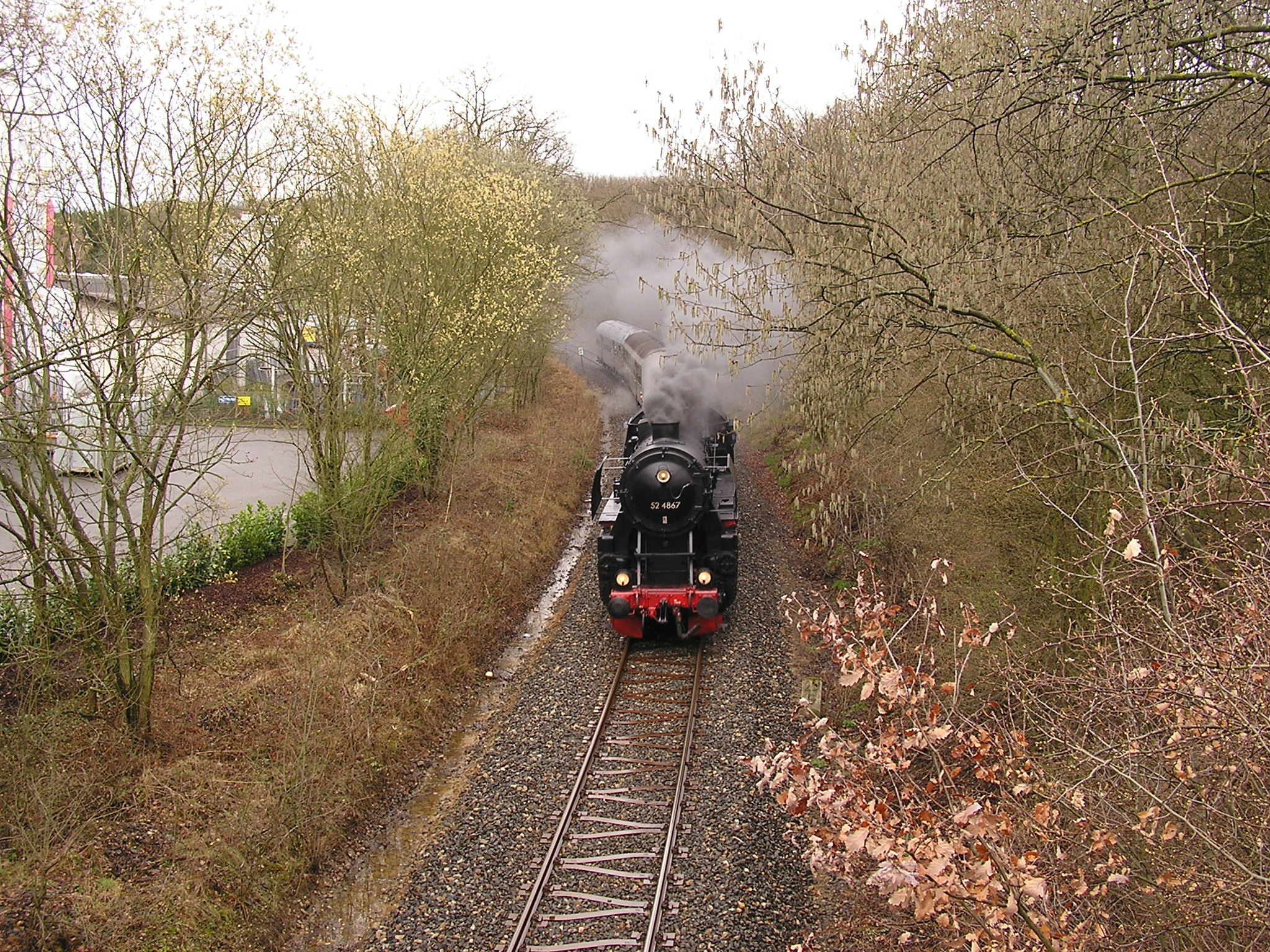 Good Friday-train of the assciation Historical Train Frankfurt with 52 4867 on the Brunnenbahn between Friedrichsdorf and Burgholzhausen.